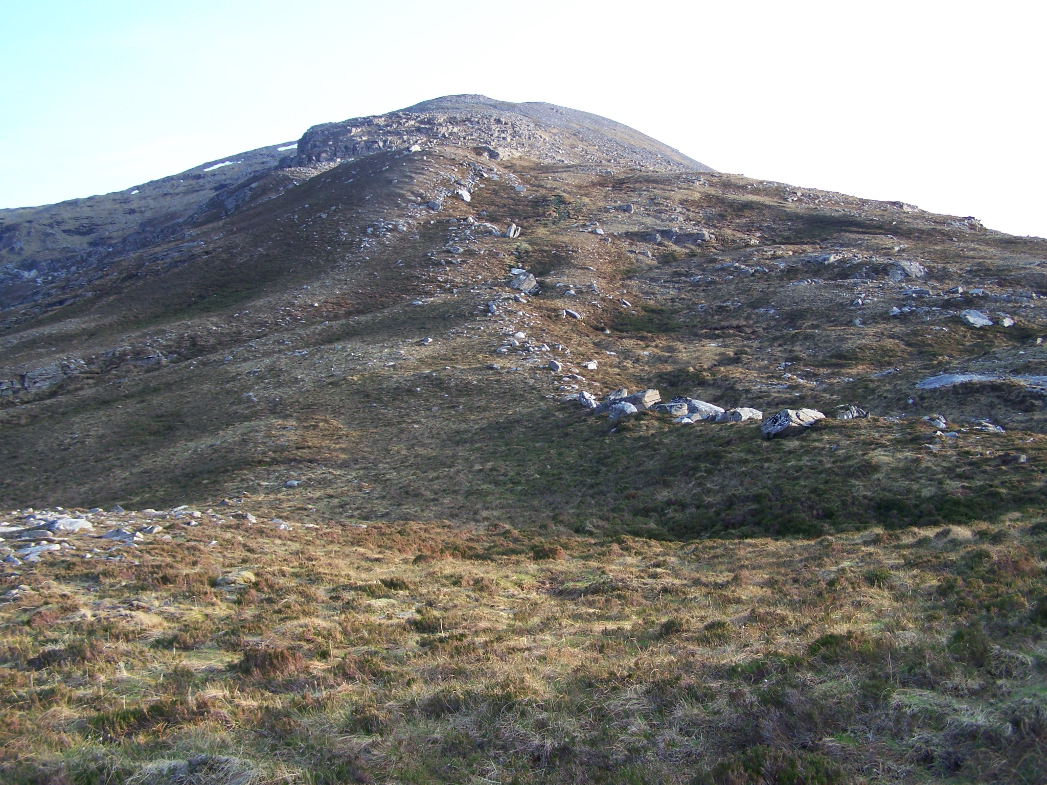 Glacial morraine ridge on the N flank of Ben Hee.